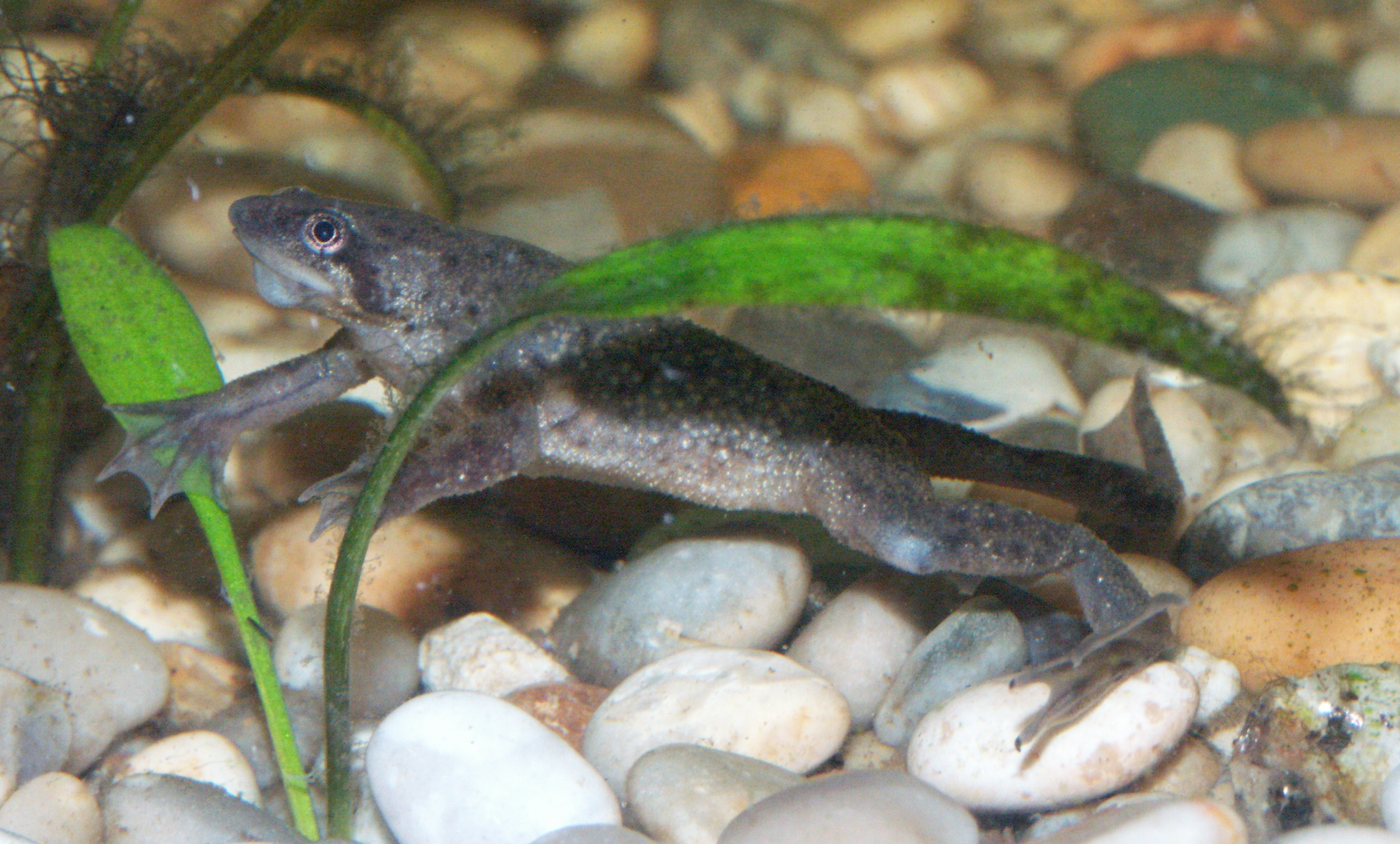 One year old young male Dwarf African Clawed Frog - Hymenochirus boettgeri